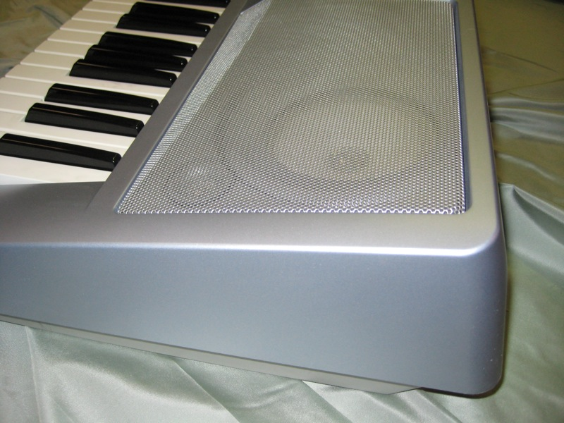 DGX-202 portable grand Features 76 full-sized, touch-sensitive keys and is loaded with Yamaha's Education Suite II that teaches you timing, note reading, and chords, and monitors and grades your progress Has a chord dictionary function, 100 built-in songs to learn Can download more from the internet to the built-in Flash ROM 605 instrument sounds, 135 accompaniment styles 4MB of Wave ROM to add realism to voices, General MIDI for computer connectivity, 32-note polyphony, and 12 drum kits for creating percussion tracks Stereo 2-way speakers with bass ports for dynamic sound, a music rest, and headphone jack for private practice Uses PA6, PA5C, or PA5D power adapter, or 6 D batteries (not included) All proceeds help us continue the fight against HIV/AIDS and homelessness